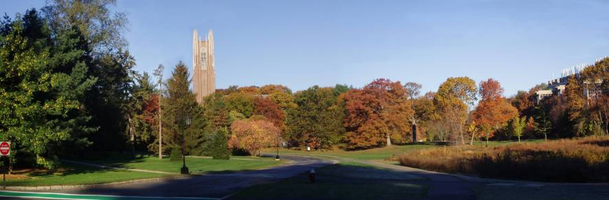 Wellesley College campus